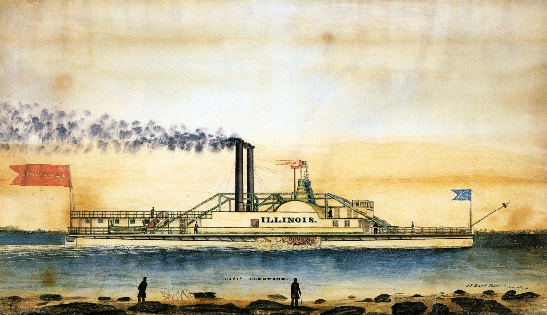 Illinois, Hudson River steamboat, built 1837. Watercolor on paper by James and John Bard.